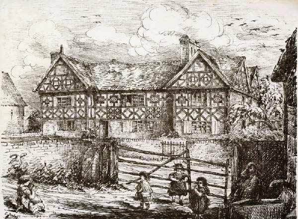 Wakelyn Hall was home to the Wakelyn family in Hilton in Derbyshire. This pic is from 1865.